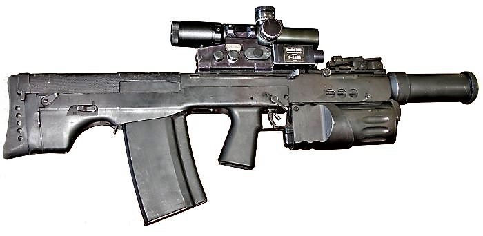 ASh-12 Bullpup assault rifle